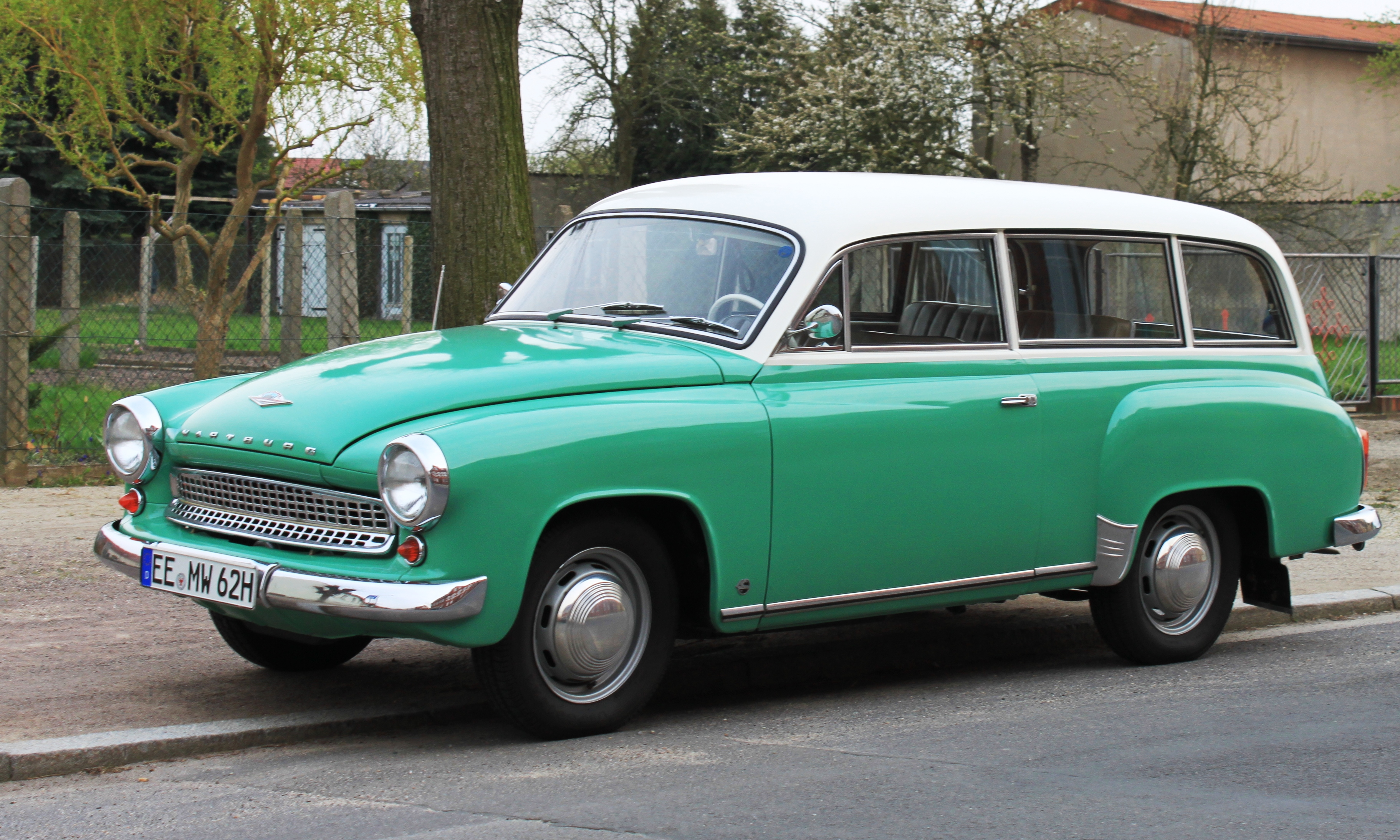 Wartburg 311 Kombi Kennzeichen Landkreis Elbe-Elster